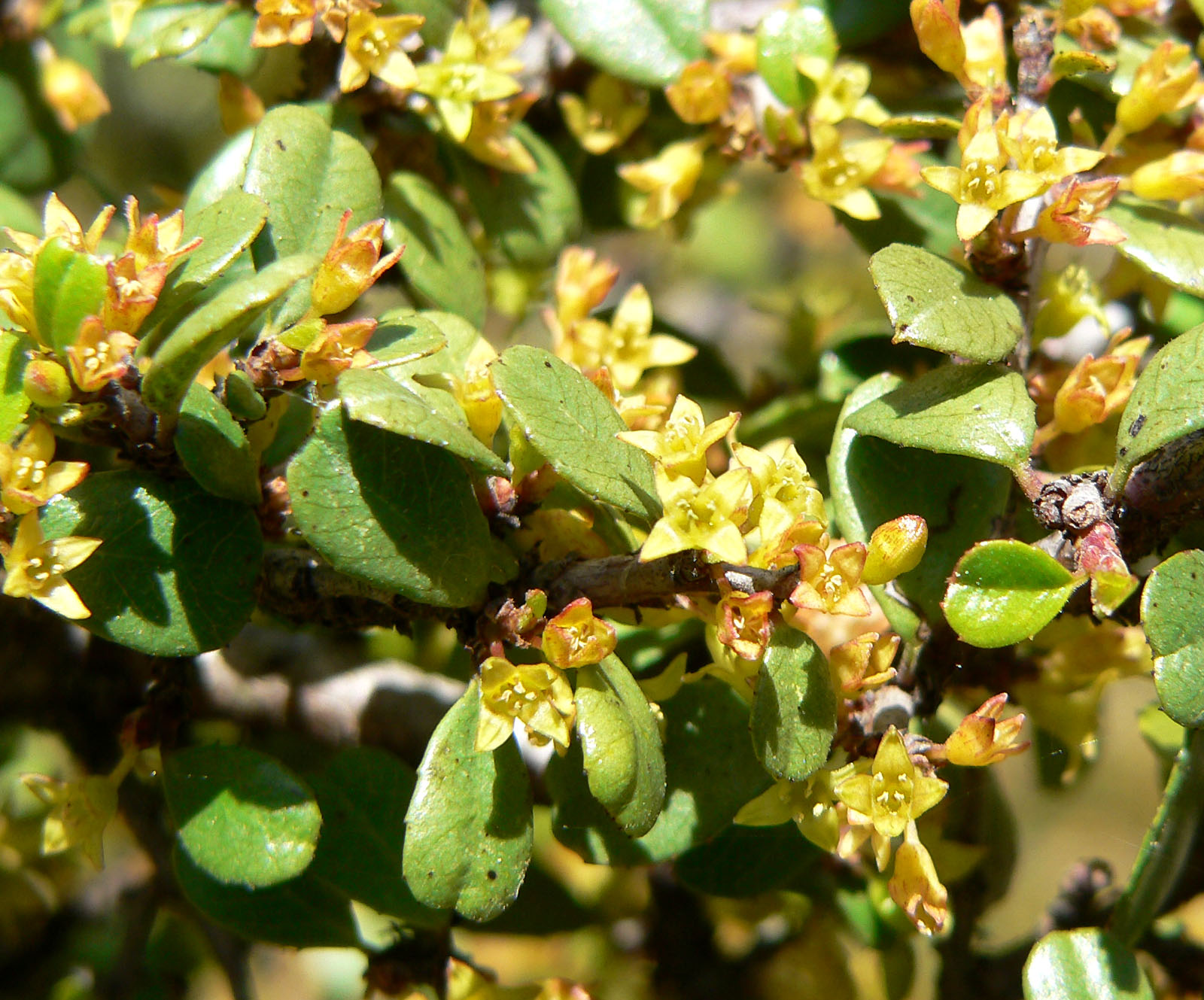 Rhamnus crocea — Red berry. At the University of California Botanical Garden, Berkeley, California.